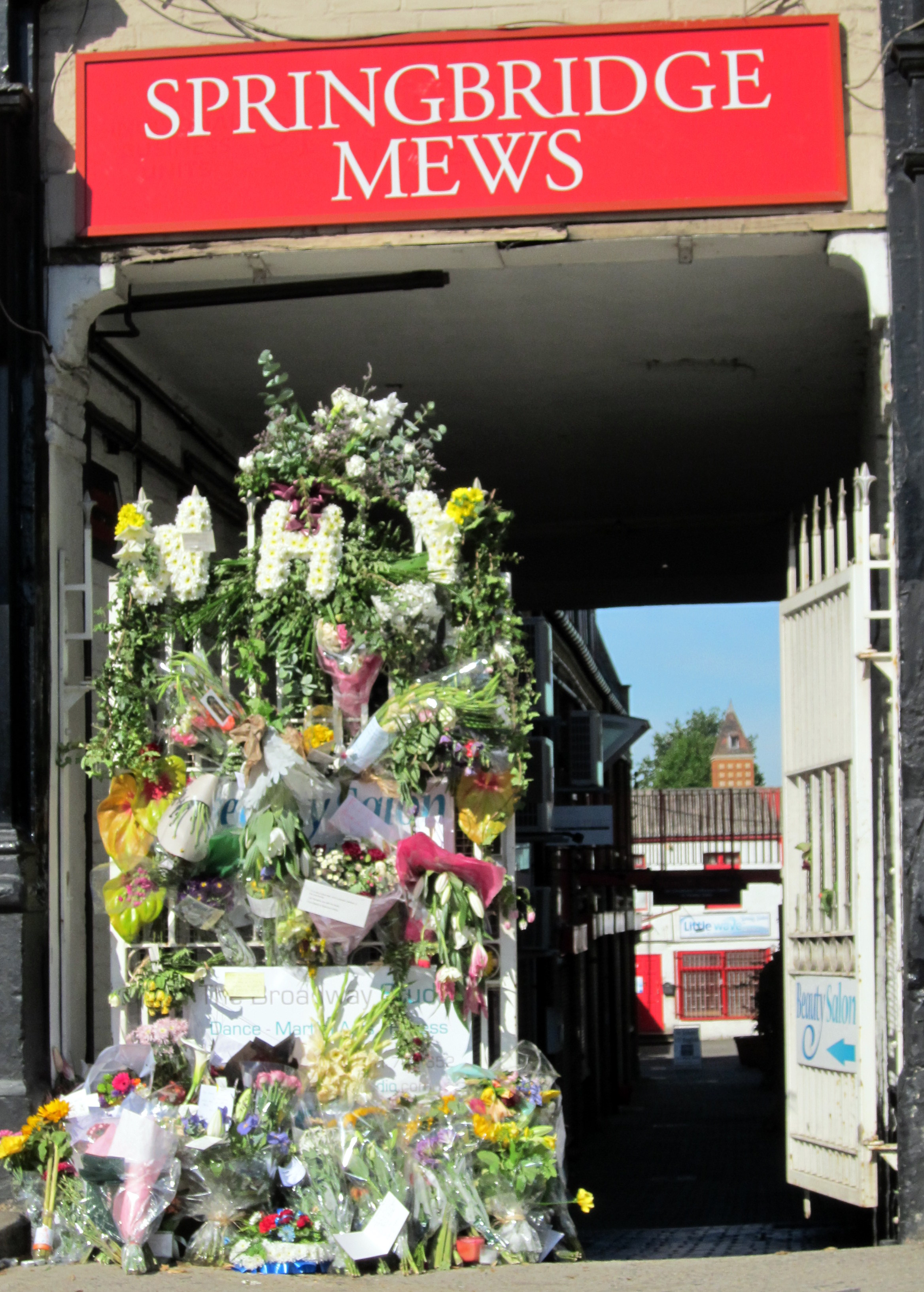 Floral tributes at Springbridge Mews in Ealing following the murder of Richard Mannington Bowes